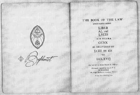 Frontpage from a published versions of Liber AL vel Legis